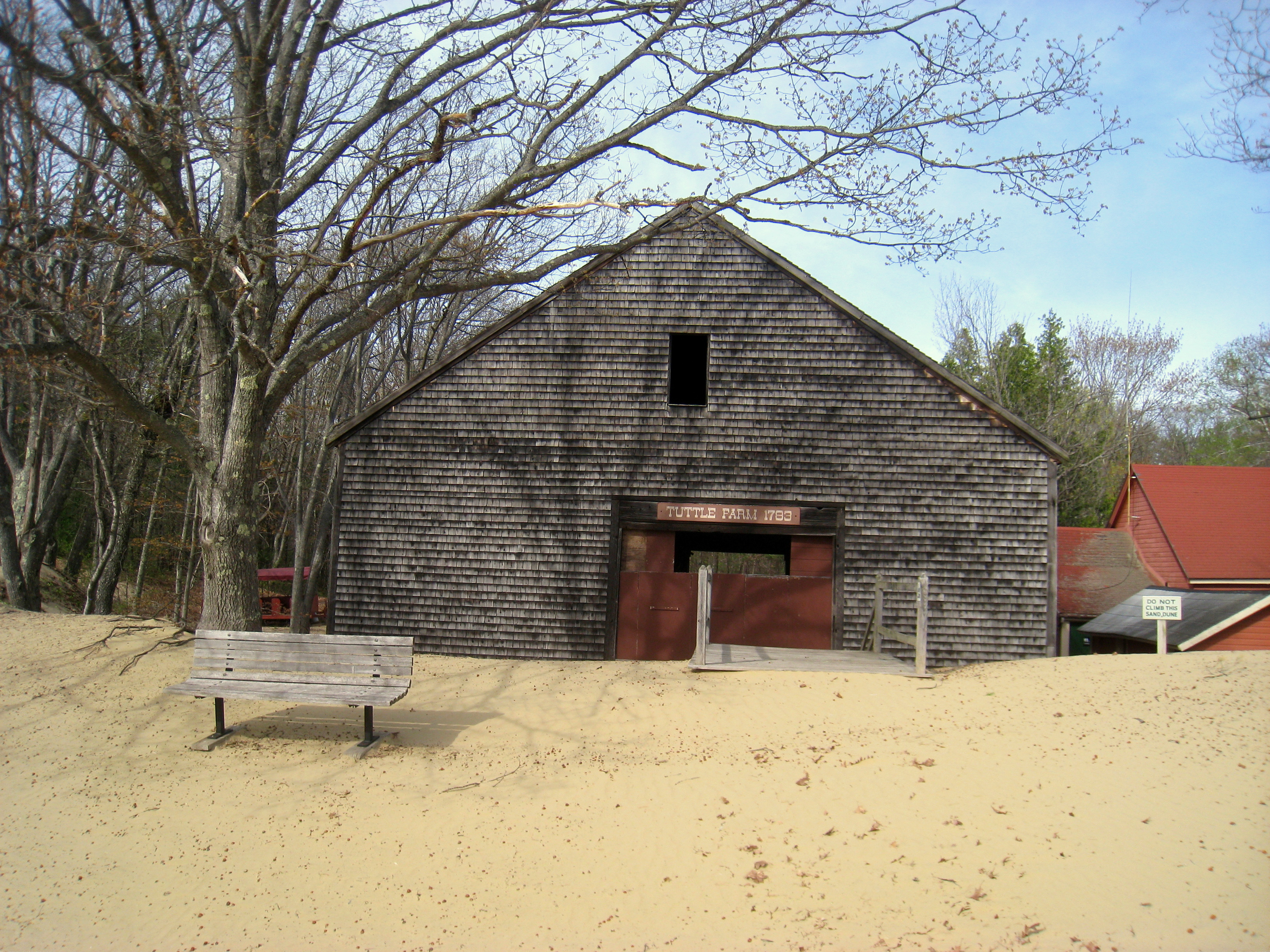 Desert of Maine, Freeport, Maine, USA.